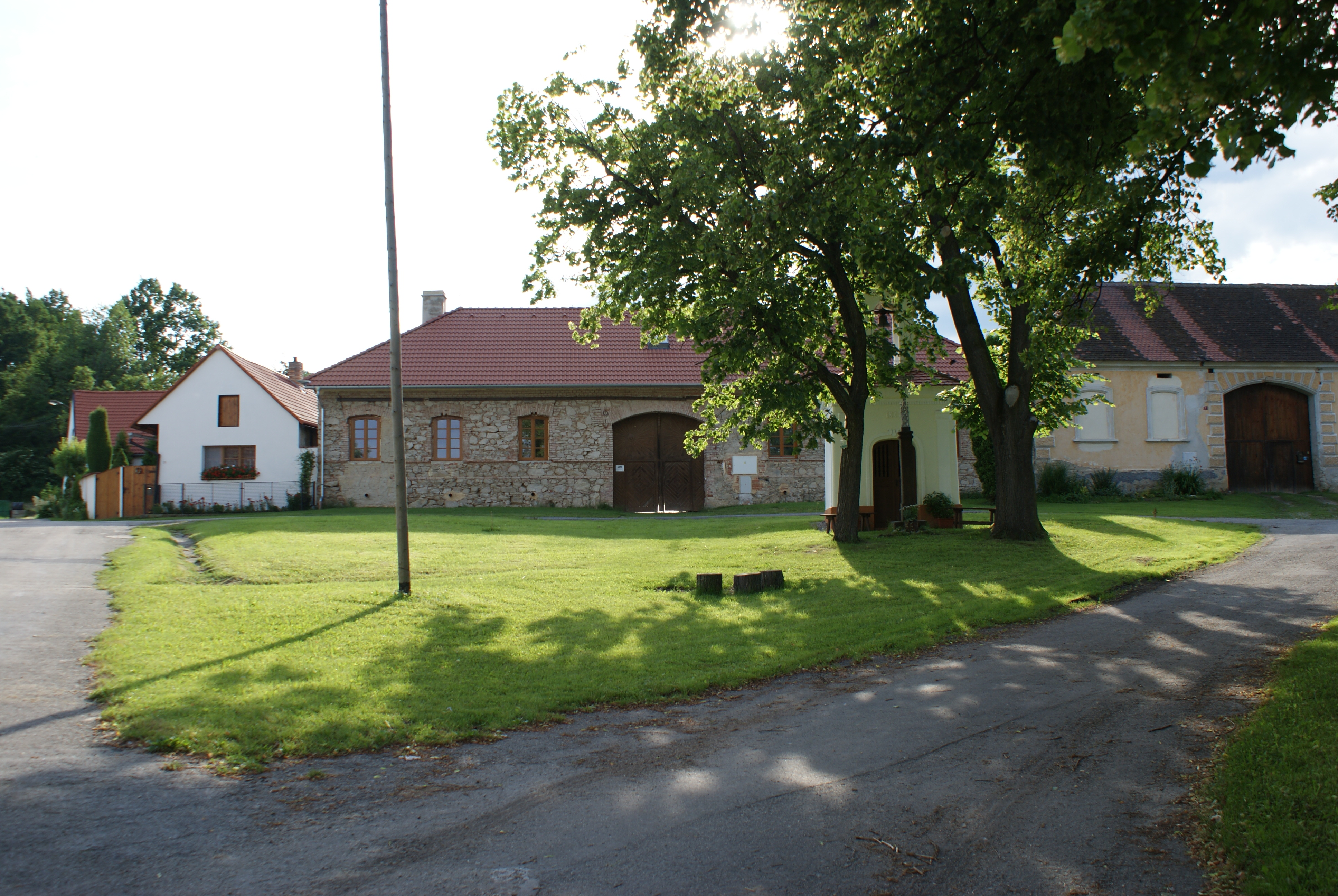 Vitice, a village in Strakonice district, Czech Republic, the village common. Česky: Vitice, okres Strakonice, náves